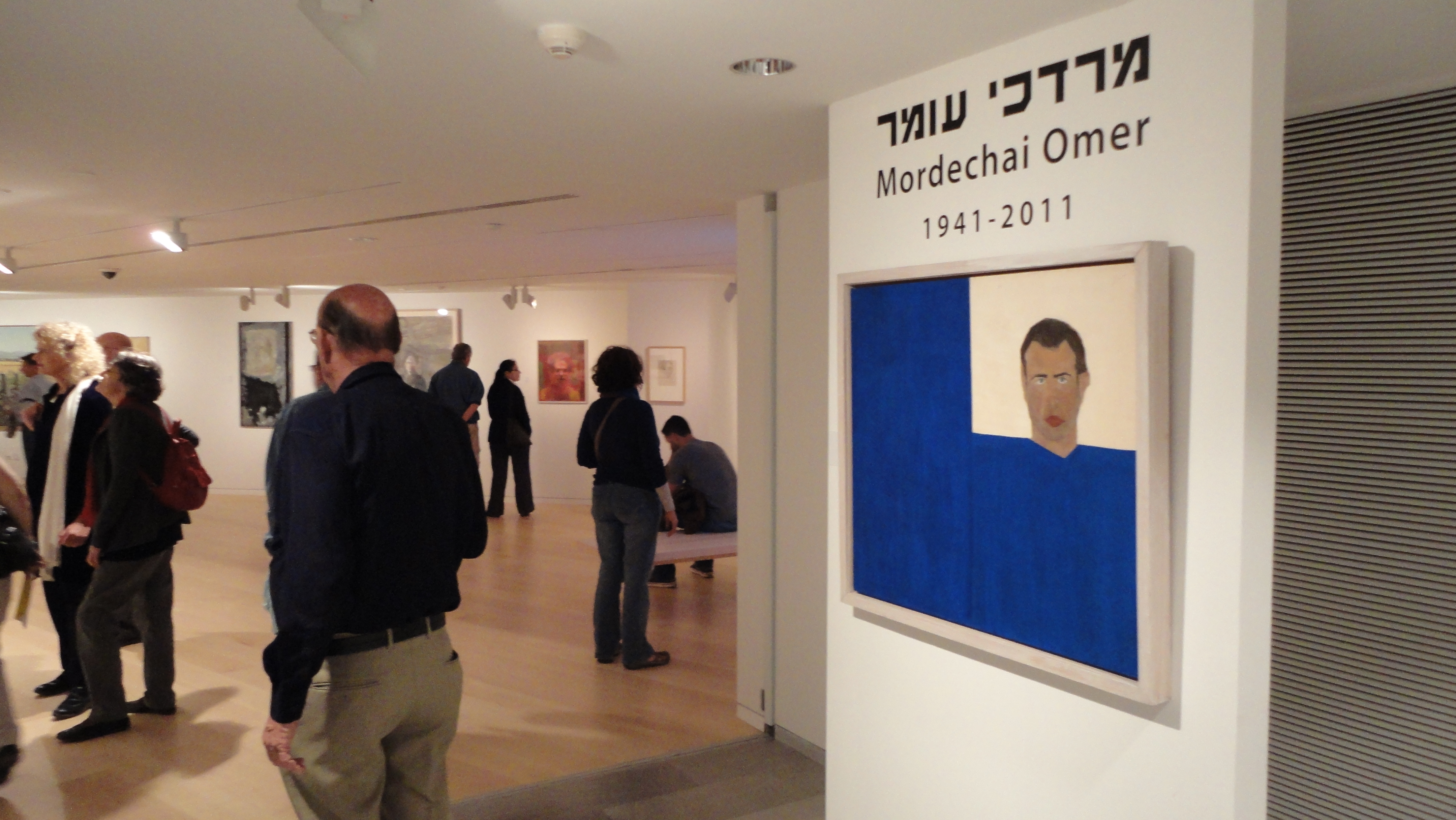 Opening of the Exibitioms at the Herta and Poul Amir Building, Tel Aviv Museum of Art, 1.11.2011.